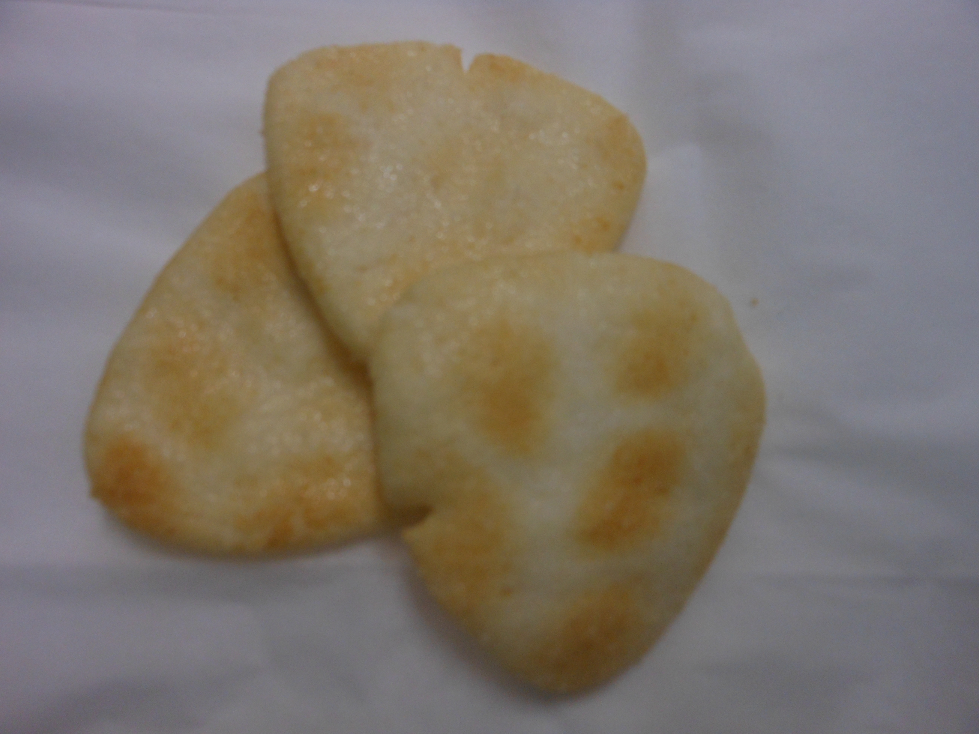 This is the special Rice cracker or Sembei manufactured by Masuya, it is located in Ise, Mie, Japan.